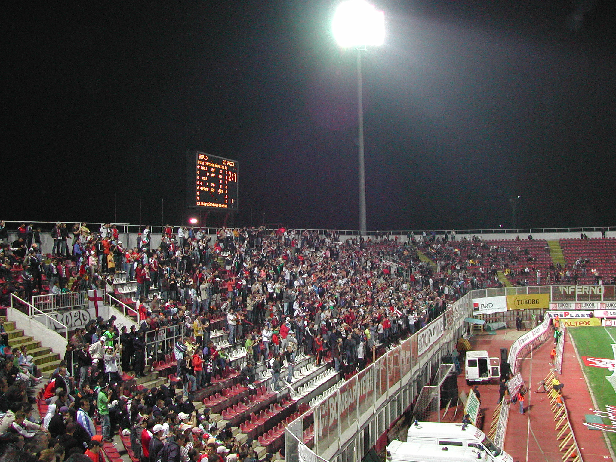 This picture shows the home supporters in the football ground Giuleşti-Valentin Stănescu. This ground is located in Bucharest, Romania and is the home ground of Rapid Bucureşti. The picture is taken during the Divizia A match of Rapid Bucureşti vs. FC Argeş Piteşti.